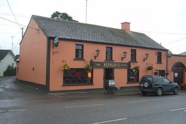 Keogan's Bar Keogan's Bar is on the West side of the road in the centre of Nobber village. There are a few small shops and a Post office on the same side of the road.